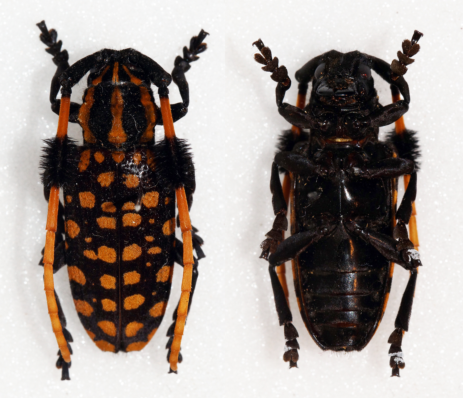 Thomson,1865 Sex: Male Data: 15-05-96 - Mae Hong Son Prov - North Thailand Size: 23.5mm